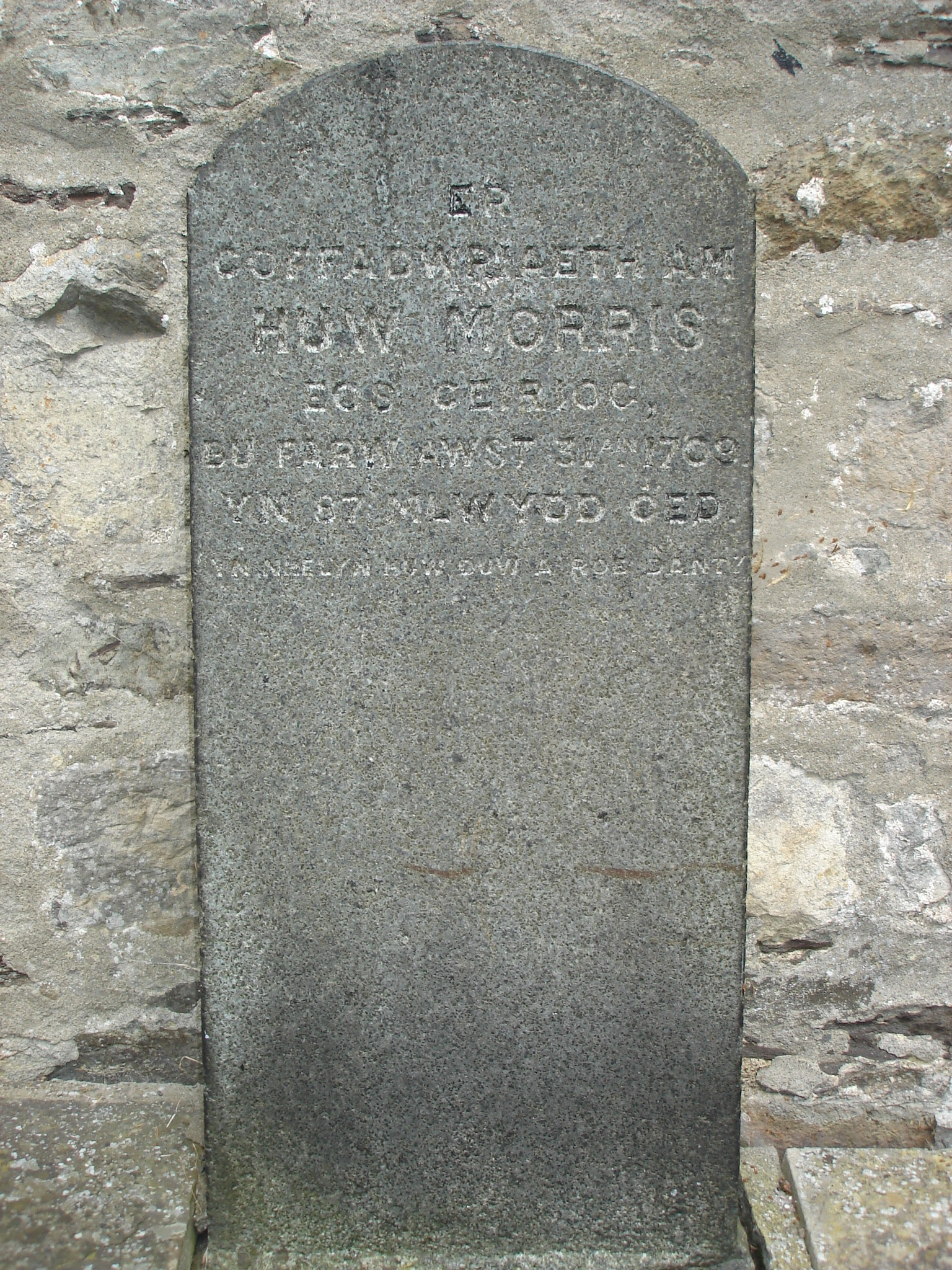 Gravestone marking grave of Huw Morus in Llansilin churchyard.